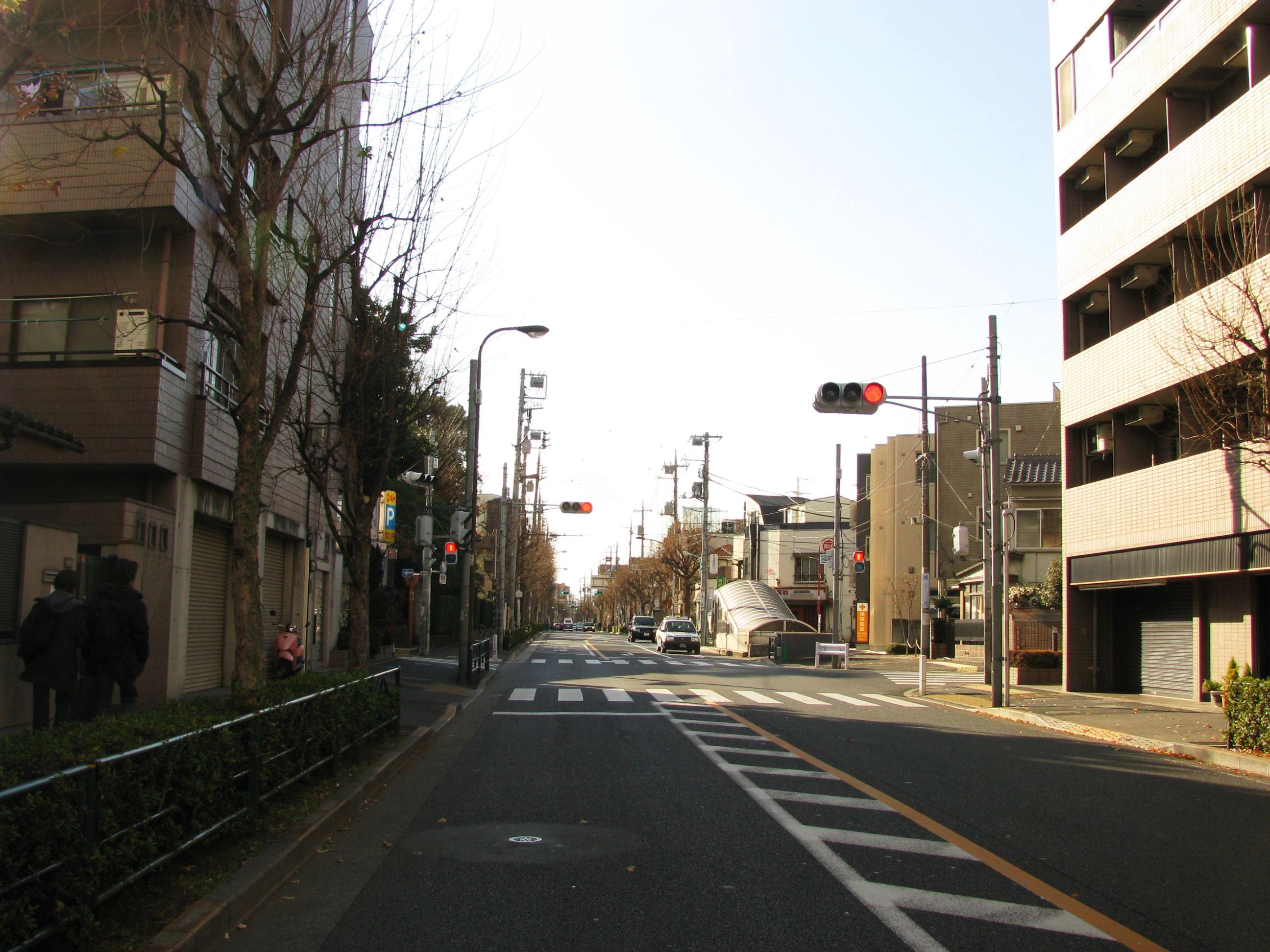 The Tokyo Prefectural Route 7. This location is Umezato in Suginami, Tokyo, Japan.